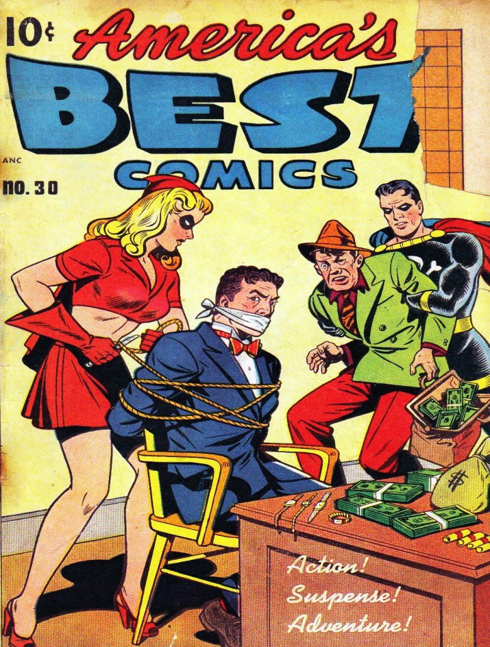 America's Best Comics #30, April 1949